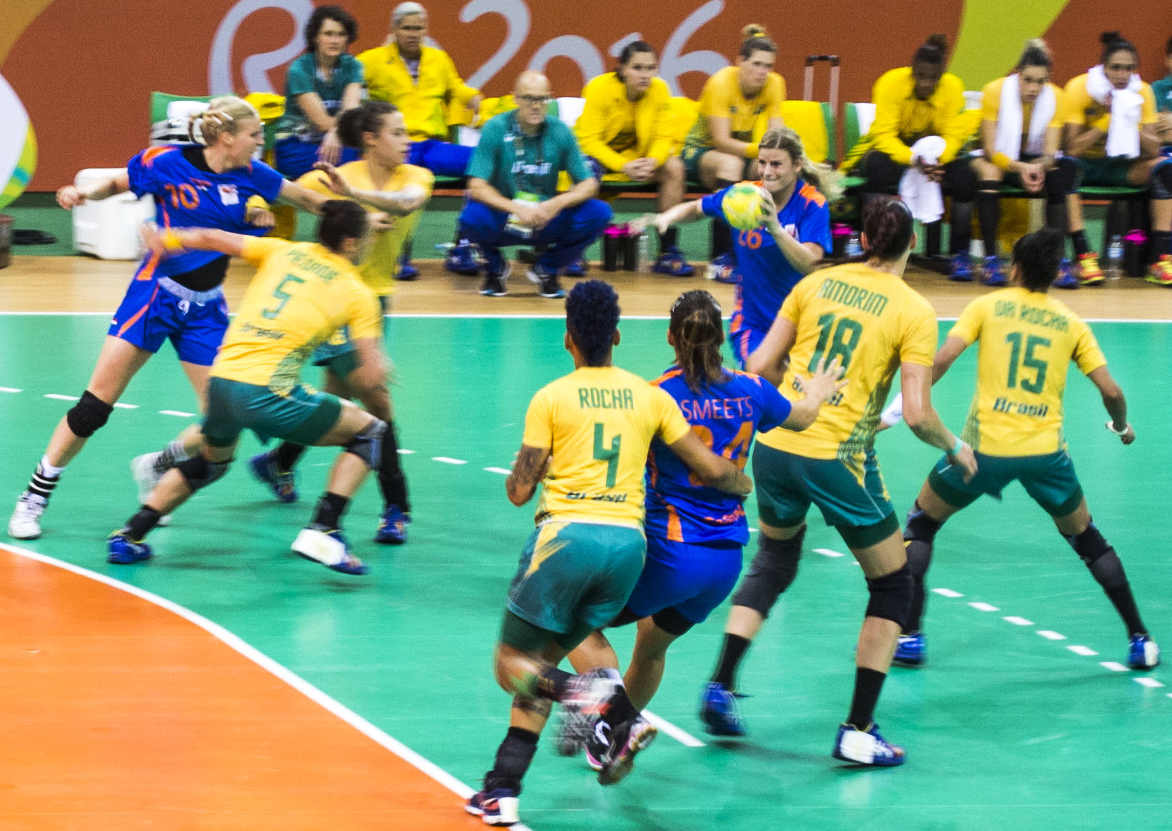 women's handball, the dispute between Brazil and the Netherlands in the quarterfinals, where the Netherlands beat Brazil by 32-23 and ended the dream of the medal in the Rio de Janeiro Games.